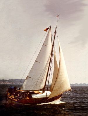 wooden sailing boat Kleine Freiheit - 70 year old gaff cutter - operation: Abenraa - Denmark